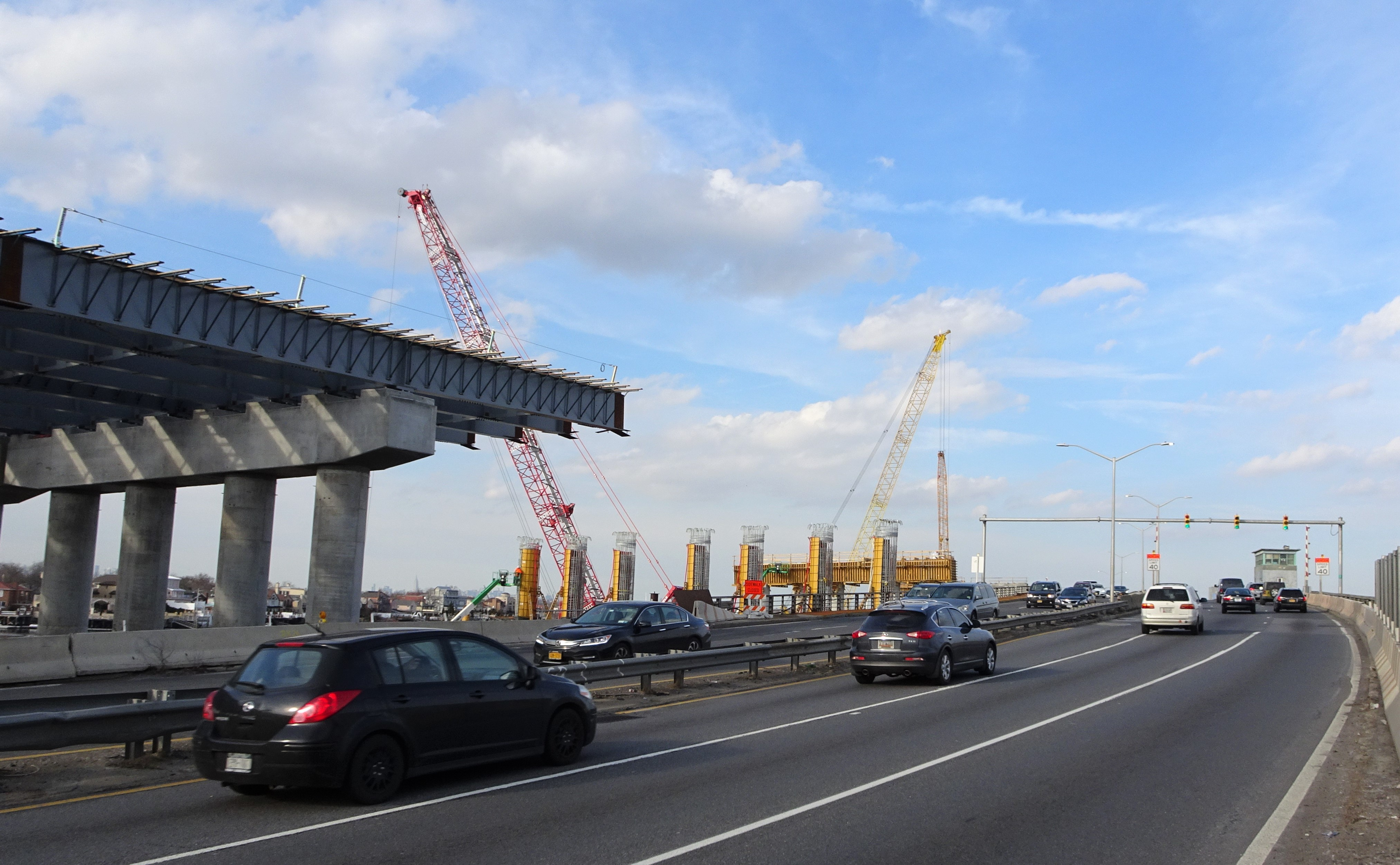 Looking north at bridge replacement work